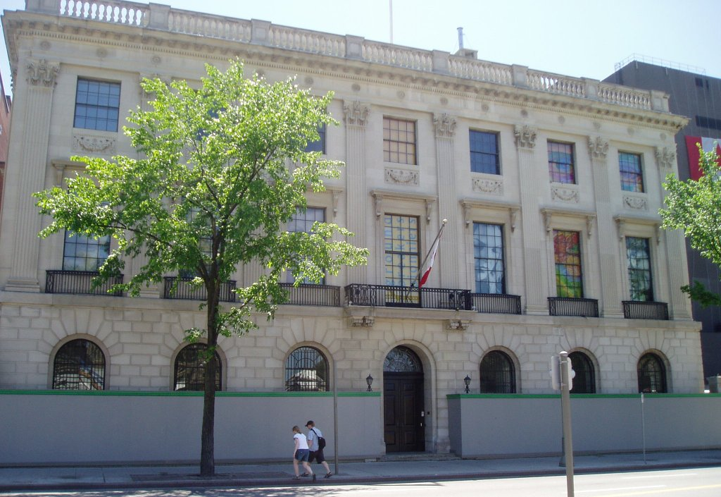 Taken by SimonP in July 2005